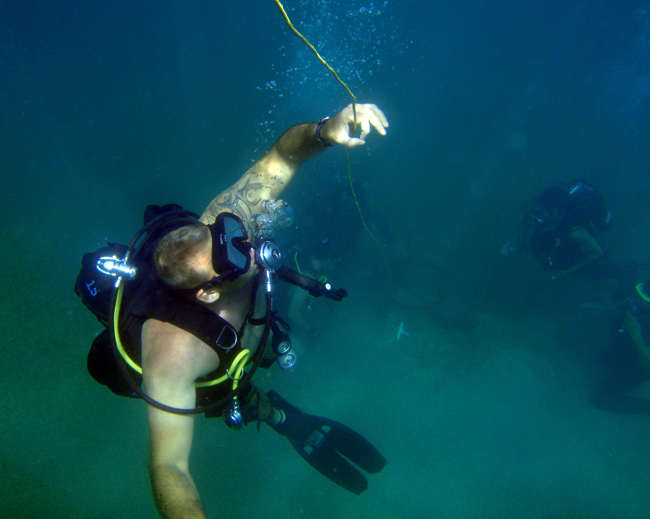 MIDDLE EAST (July 2, 2009) Senior Chief Explosive Ordnance Disposal Technician Ted Seitz demonstrates how to properly ascend to the surface by following the detonation cord during an underwater training evolution during exercise Infinite Response '09. Infinite Response is an exercise to improve interoperability and tactical proficiency in underwater mine countermeasures, combat marksmanship, anti-terrorism force protection diving, counter improvised explosive device tactics, tactical combat casualty care and dive medicine that strengthen overall military relations. (U.S. Navy photo by Mass Communication Specialist 1st Class Joseph W. Pfaff/Released)